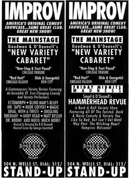 Ads for the Chicago New Variety at the Improv on Wells Street